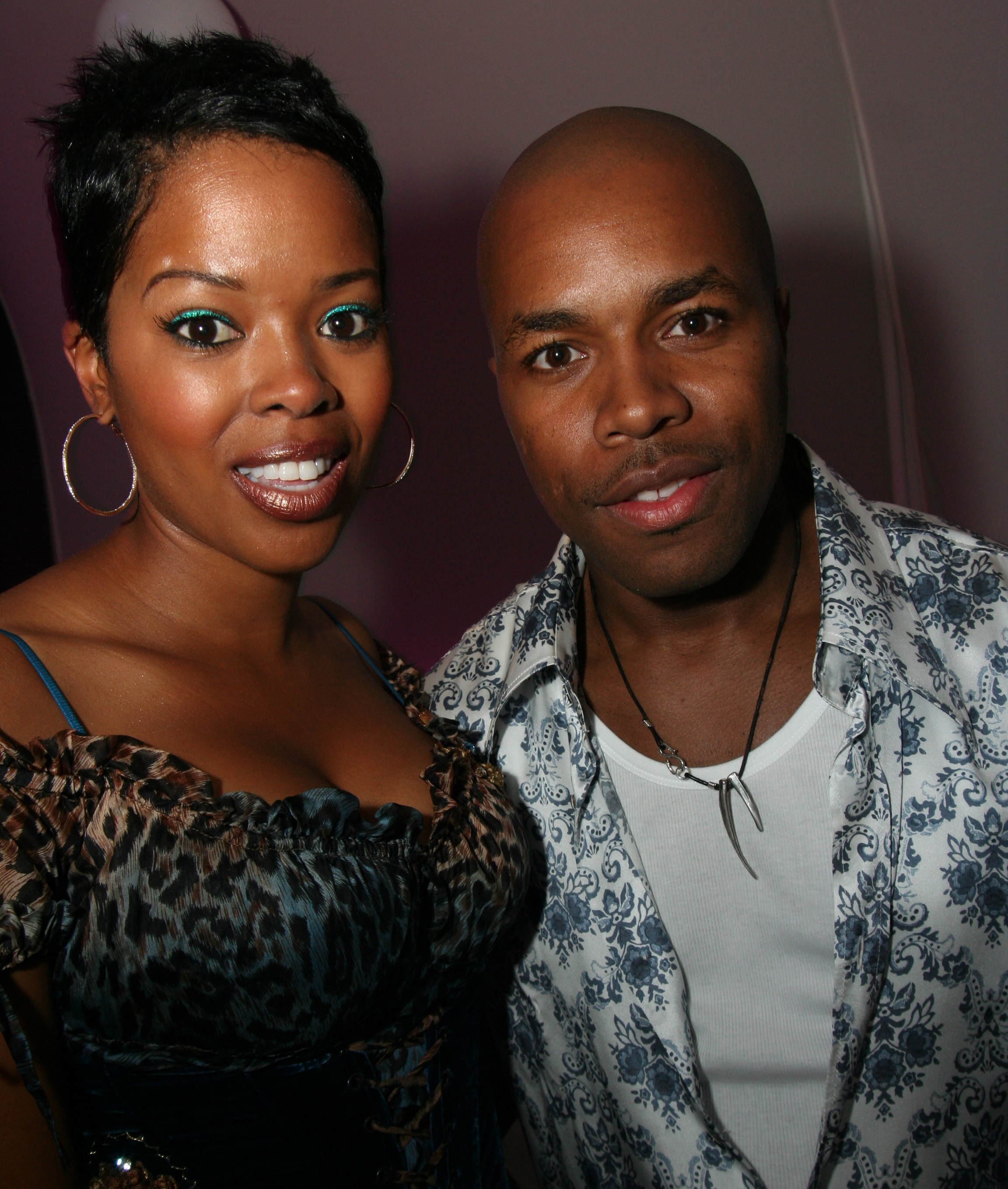 Malinda Williams and D-Nice in June 2006.